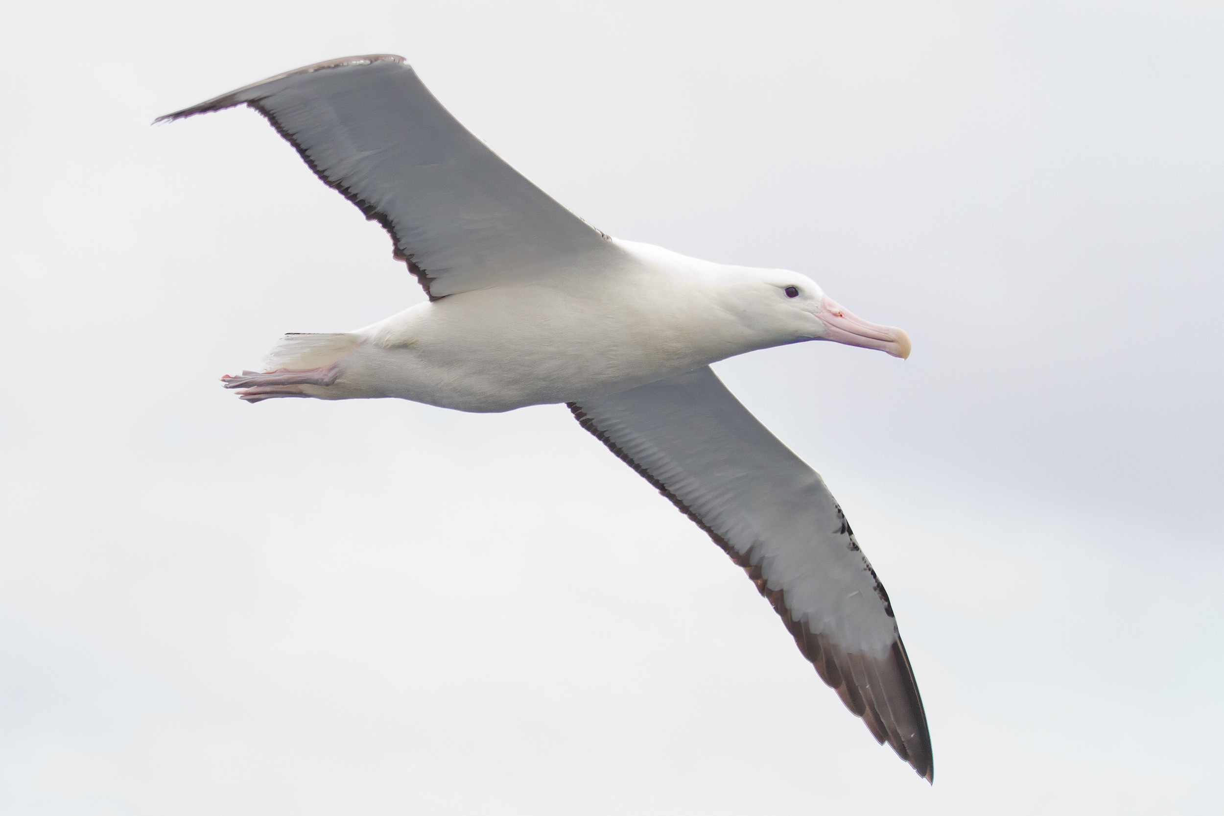 Northern Royal Albatross (Diomedea sanfordi), East of the Tasman Peninsula, Tasmania, Australia